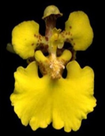 Flower of Rossioglossum ampliatum (Oncidiinae: Orchidaceae).